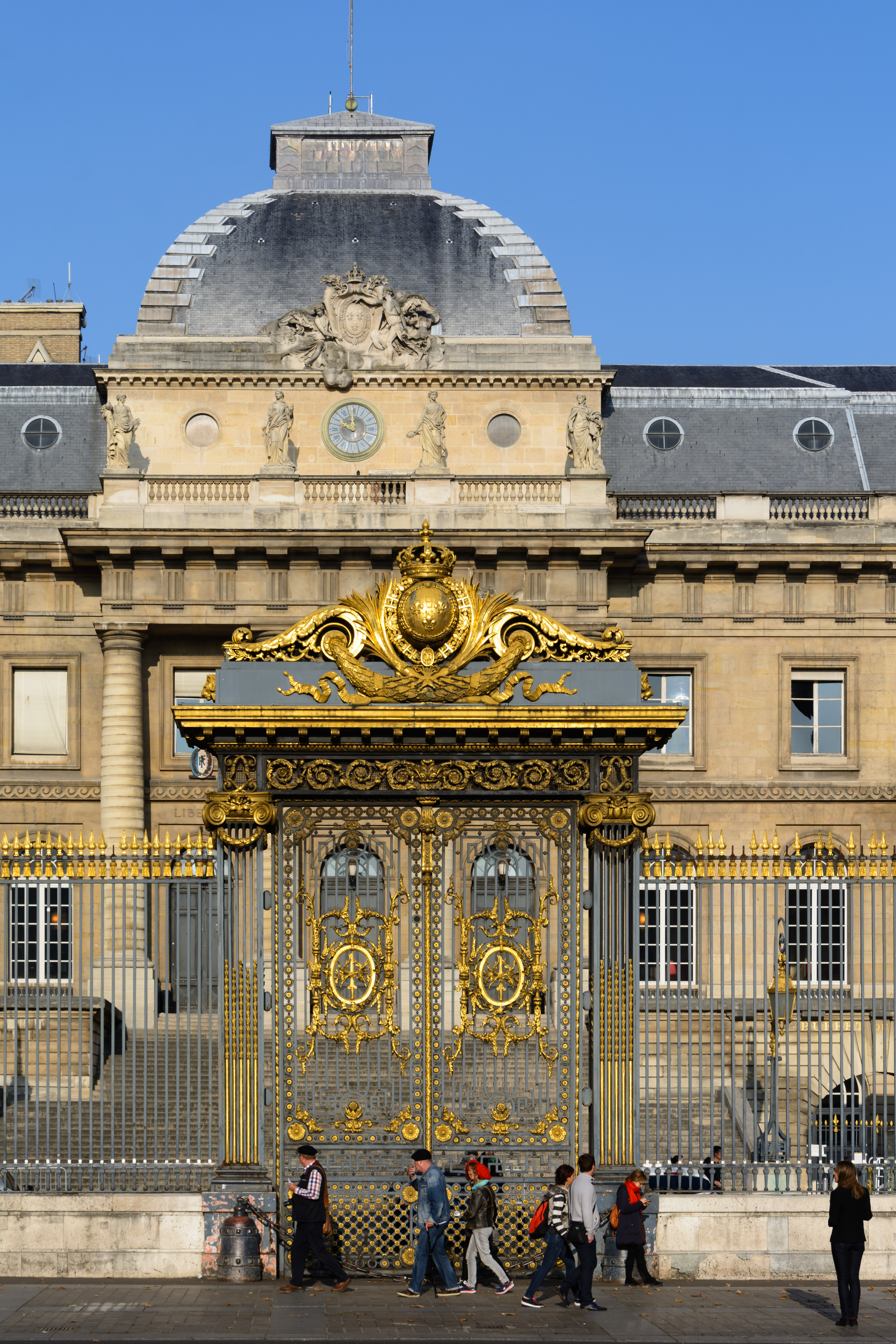 Gate at the Cour de Mai of the Palais de Justice in Paris, France .